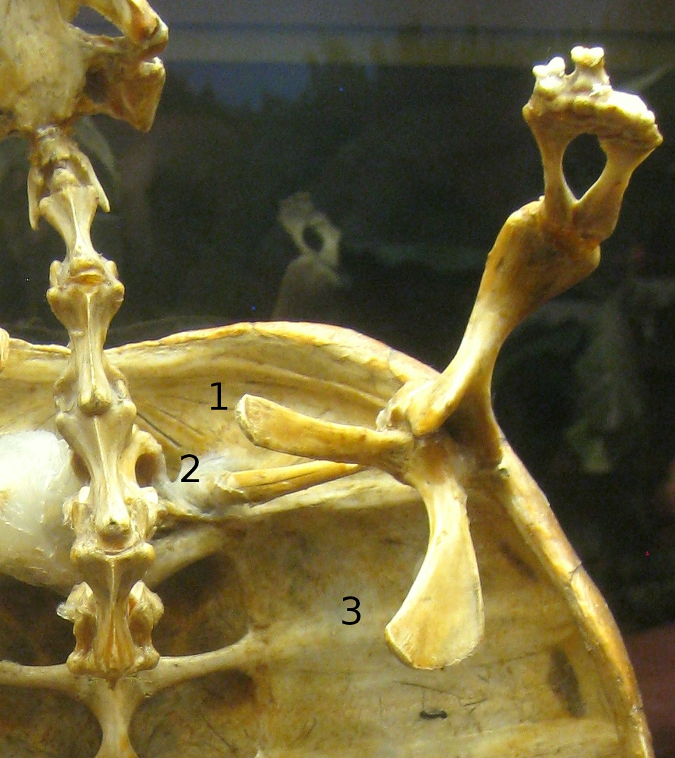 The shoulder girdle of a snapping turtle. (1) Acromion, (2) scapula, and (3) coracoid. A detail from File:Museum of Science, Boston, MA - IMG 3254.JPG by Daderot.